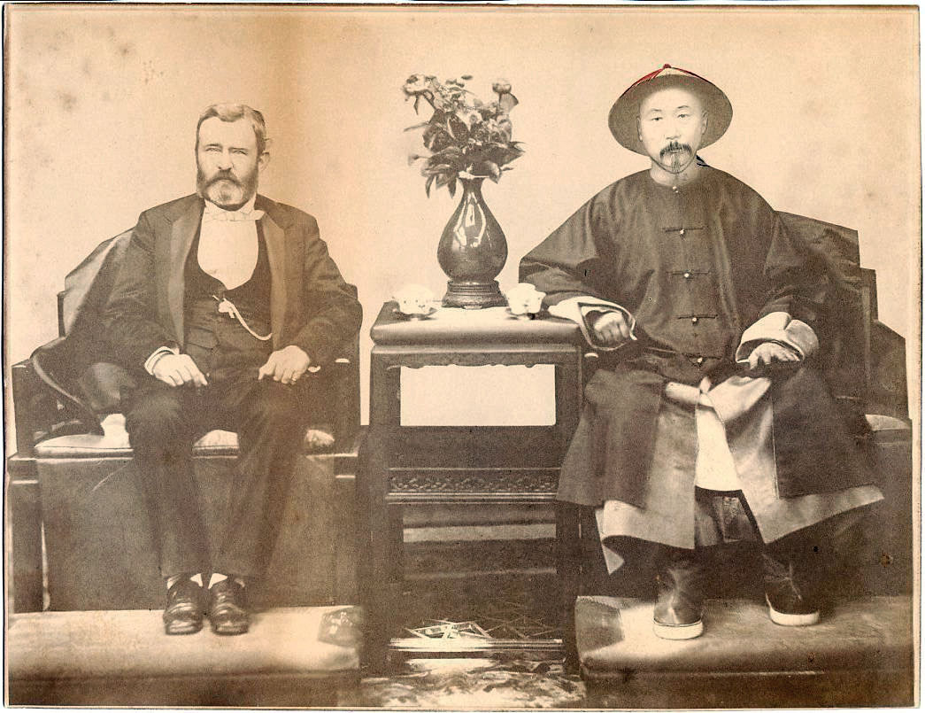 Li Hongzhang and Ulysses S.Grant (Tianjin, 1879)